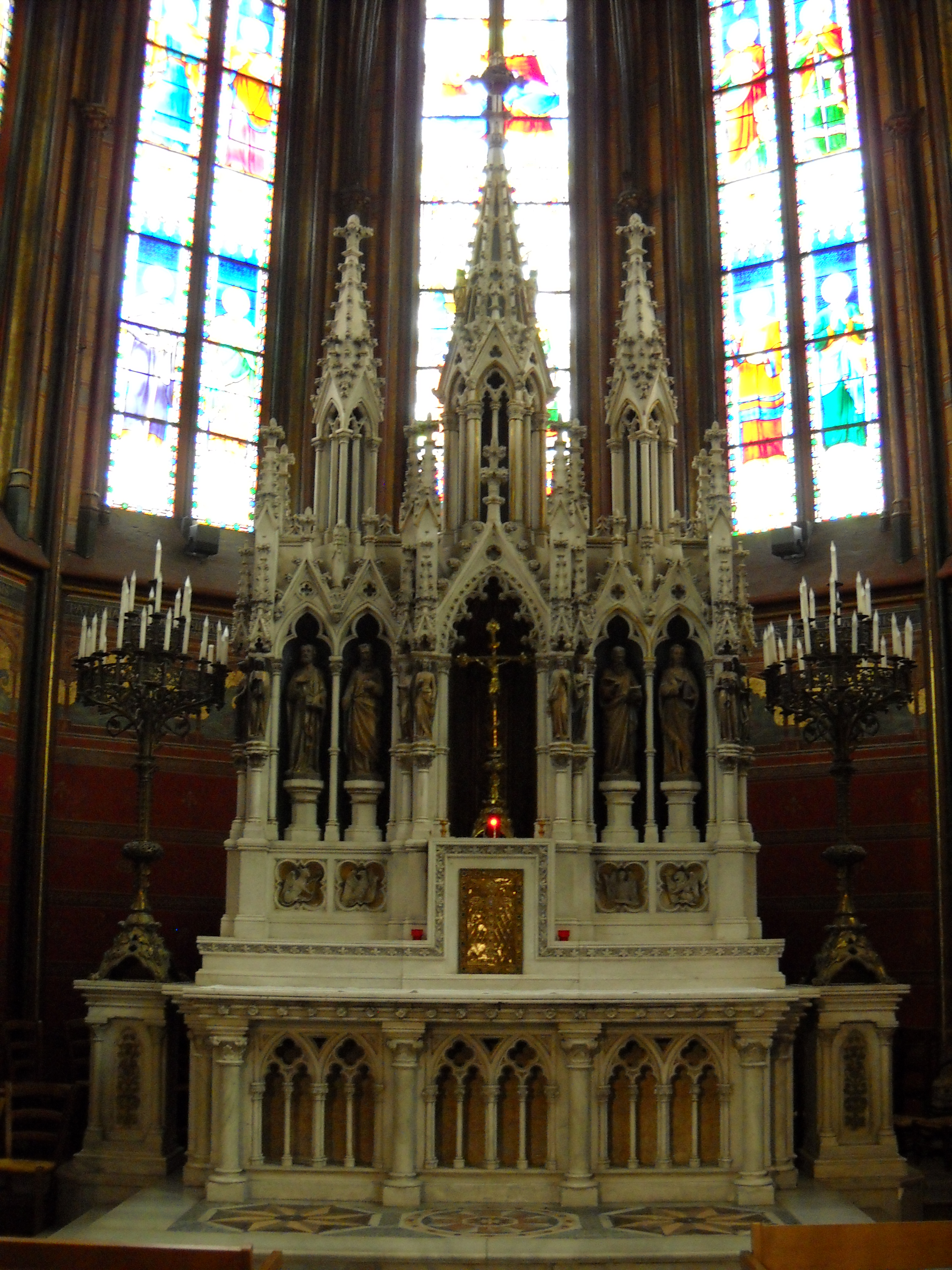 Notre-Dame de Boulogne catholic church, in Boulogne-Billancourt, Hauts-de-Seine, France.